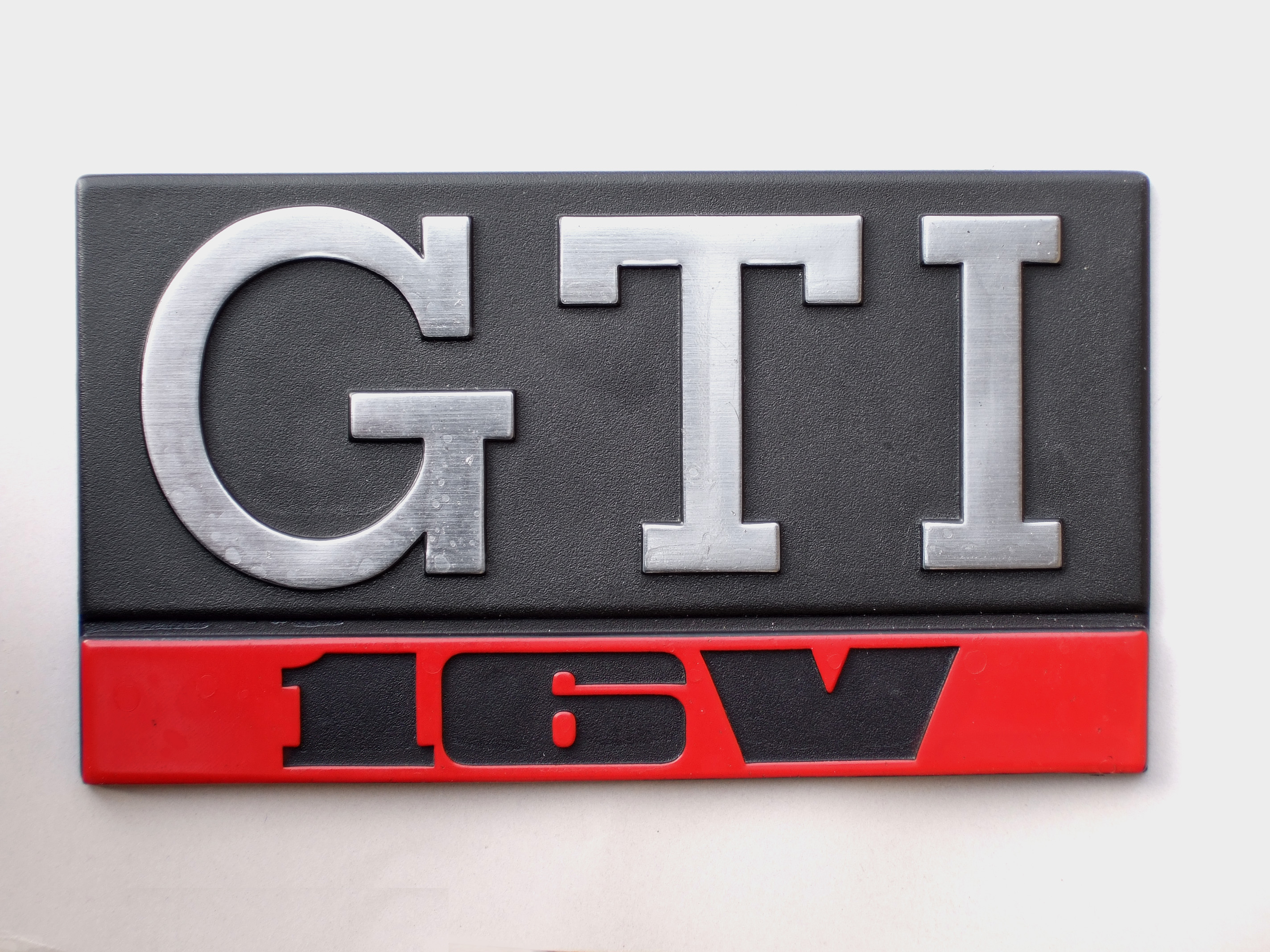 VW Golf GTI 16V, 1987, 139 HP, GTI 16V emblem front